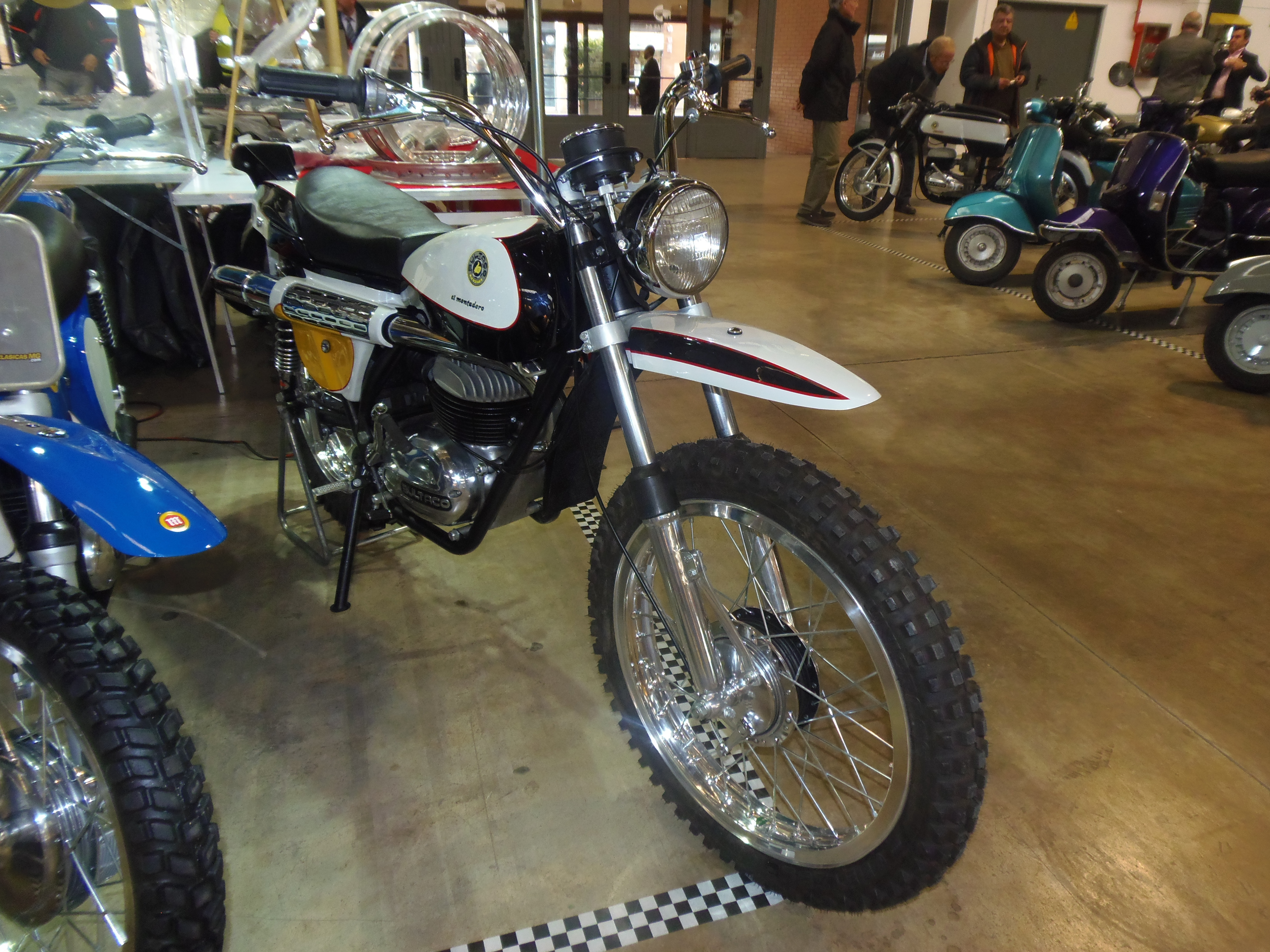 Bultaco El Montadero 360 Mk1, 1968